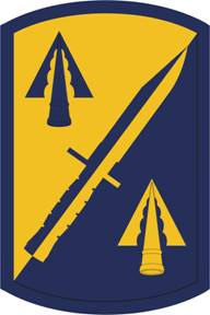 158th Infantry Brigade Shoulder Sleeve Insignia from